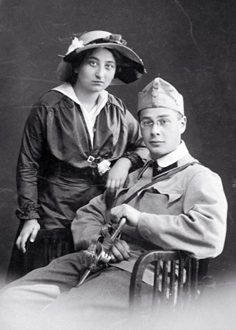 Rudolf and Rudolfine Menzel. Rudolf Menzel was a Vienna born physician. Rudolphina was a cynologist, best known for her work in the field of animal behavior. They emigrated to Palestine in 1938.